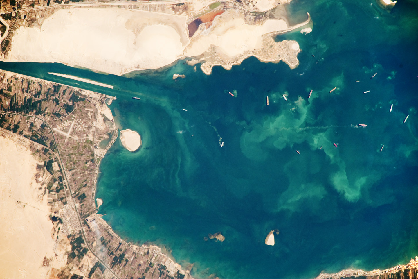 Several ships, some under power and some anchored, are visible at image right. Large expanses of white and tan sandy sediments at image left and top attest to the desert conditions surrounding the lake. Located at the approximate midpoint of the Suez Canal, Great Bitter Lake is now filled with water derived from both the Red and Mediterranean Seas, and this steady influx of water balances the water lost to evaporation. The town of Fayid (also spelled as Fayed), visible along the western shore of the lake (bottom) is a tourist destination for residents of Cairo, particularly in the summer months. ISS Crew Earth Observations: ISS020-E-45018IdentificationMissionISS020 (Expedition 20)RollEFrame45018Country or Geographic NameEgyptFeaturesGREAT BITTER LAKE, FAYID, SUEZ CANAL, SHIPSCenter Point Latitude30.4° NCenter Point Longitude32.4° ECameraCamera Tilt18°Camera Focal Length800 mmCameraNikon D3Film4256 x 2832 pixel CMOS sensor, 36.0mm x 23.9mm, total pixels: 12.87 million, Nikon FX format.QualityPercentage of Cloud Cover0-10%Nadir What is Nadir?Date2009-10-02Time06:49:55Nadir Point Latitude31.1° NNadir Point Longitude31.7° ENadir to Photo Center DirectionSoutheastSun Azimuth122°Spacecraft Altitude186 nautical miles (344 km)Sun Elevation Angle36°Orbit Number2282